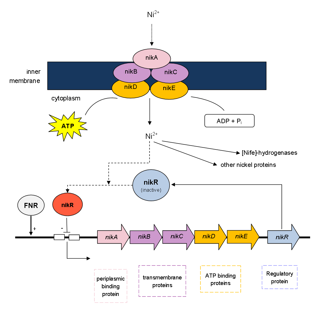 Regulation of nickel ions in a cell through nik operon